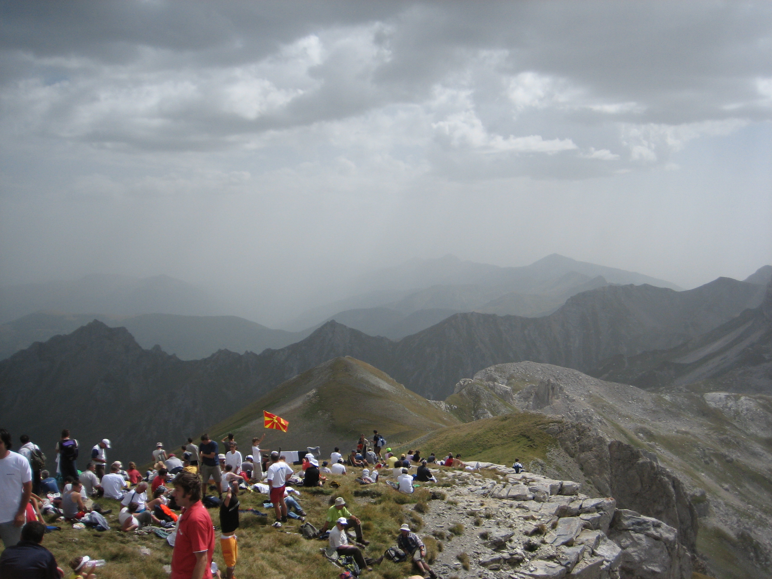 On the top of the Mount Korab, with 2754 metres a.s.l. the highest mountain of Macedonia and Albania